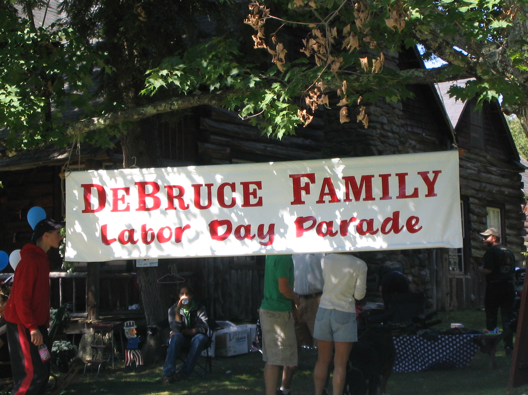 I took this picture on labor day, 2004: DonSiano